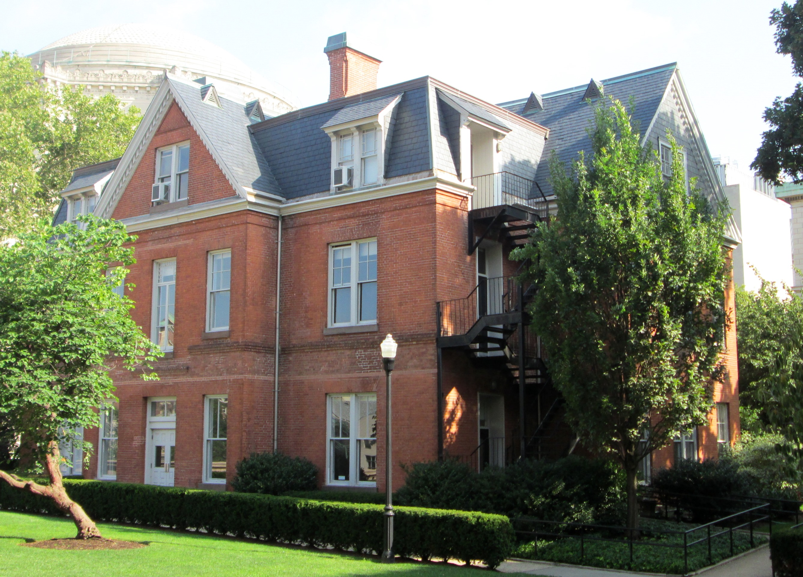 Buell Hall, on the Morningside Heights campus of Columbia University, southeast of the Low Memorial Library, was built in 1885 and was designed by Ralph Townsend. It is the only building on campus which dates back to the Bloomingdale Insane Asylum which preceded Columbia. The building, whose street address was 515 West 116th Street, is the location of Temple Hoyne Center for the Study of American Architecture, the Arthur Ross Architecture Gallery and Columbia's Headquarters for Japanese Architectural Studies and Advanced Research. It is commonly known as "La Maison Francais"; previously it was "Macy Villa", when it was part of the asylum, and College Hall, Alumni House and East Hall as part of Columbia. (Sources: Virtual campus tour, Columbia facilities, and "Buell Hall")